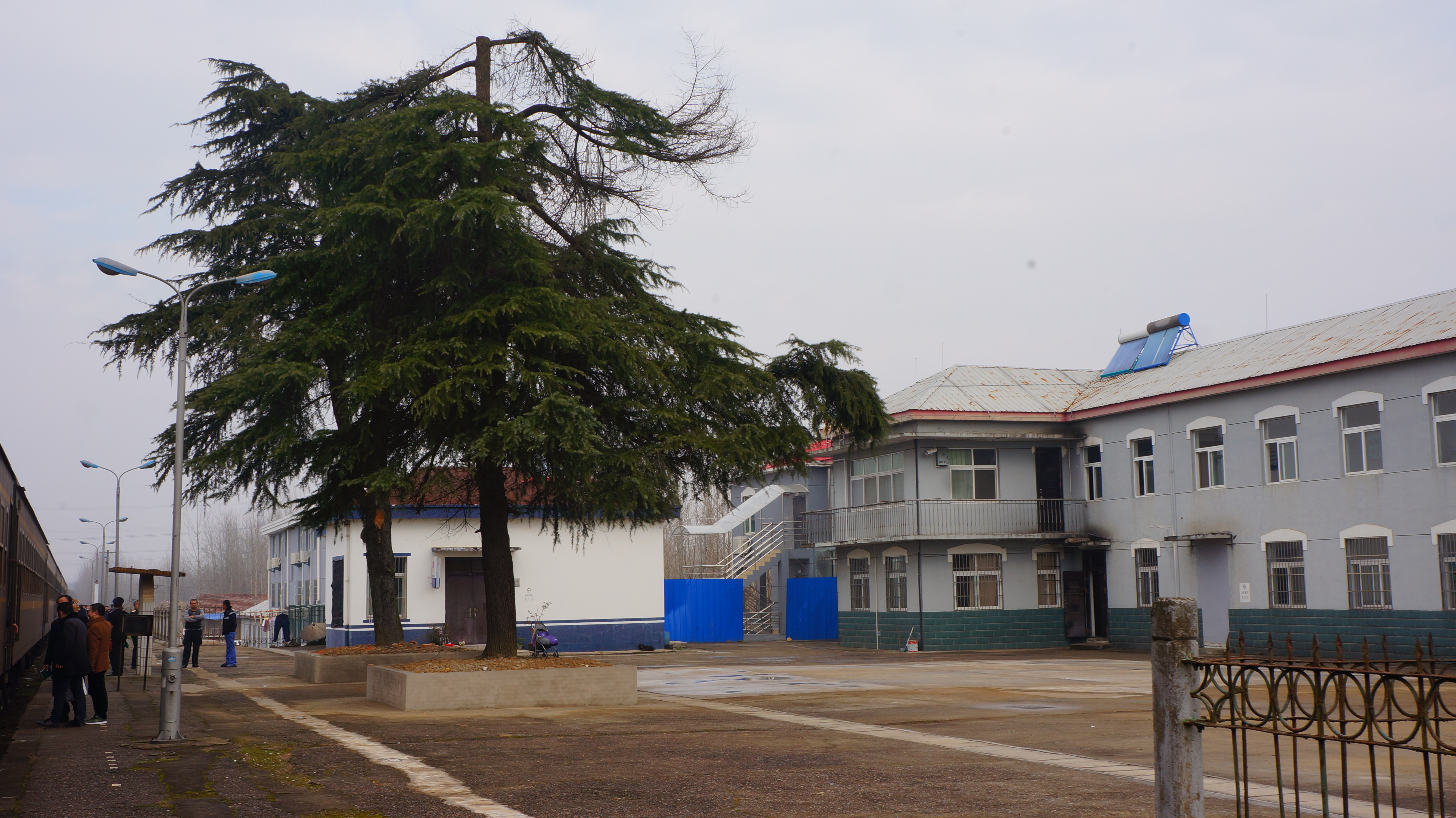 201601 Sunjiabu Railway Station